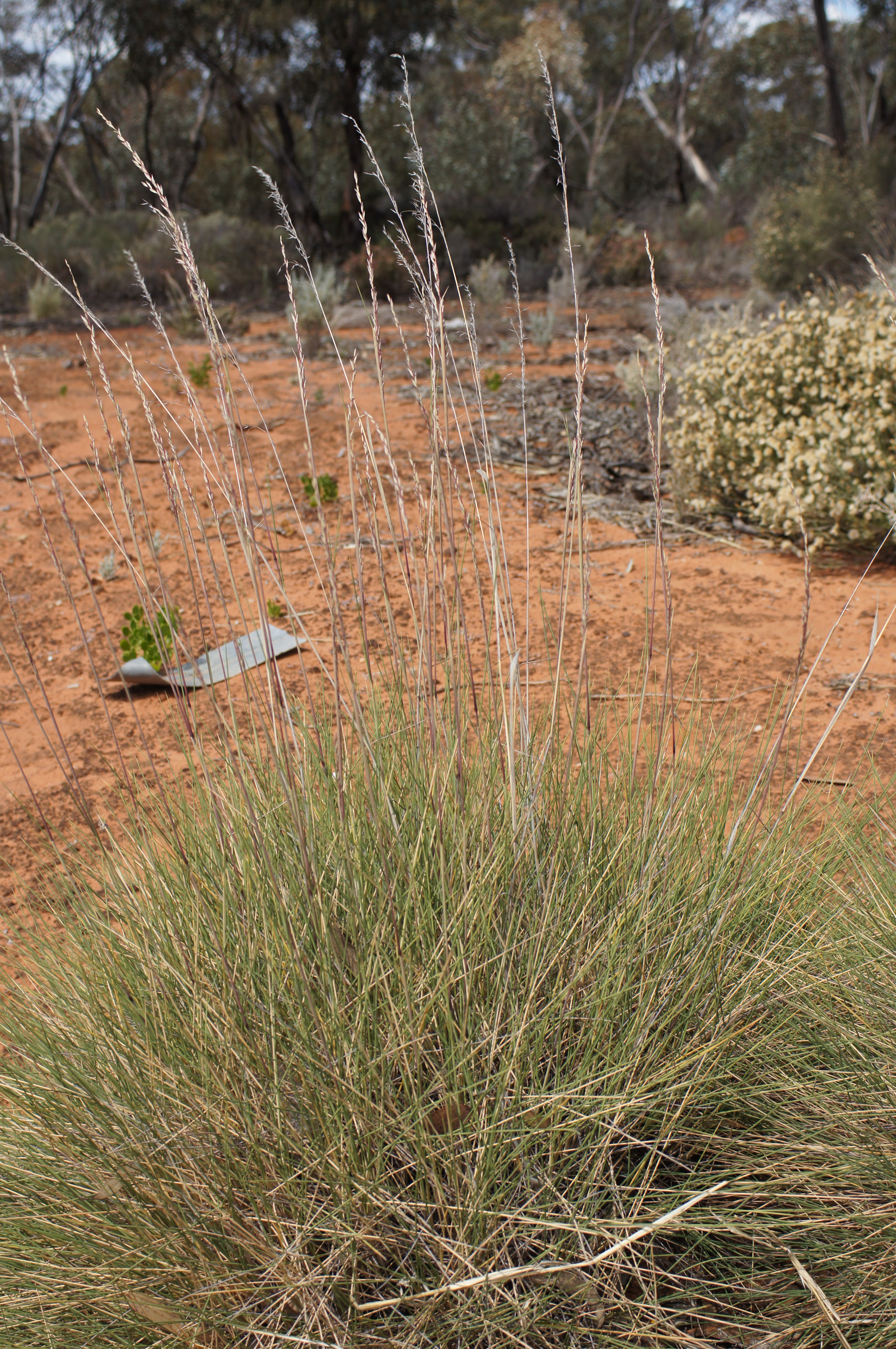 Native, warm-season, perennial, tussock or hummock-forming grass to 200 cm wide and 100 cm tall. Stems are branched and leaves are rigid, narrow, tightly rolled and sharp tipped. Flowerheads are contracted to open panicles 9-30 cm long. Flowers anytime after heavy rain. Found on well-drained, low fertility, sandy or rocky areas (e.g. serpentine). Native biodiversity. Slow growing and very drought tolerant. Extremely spiky; an unpalatable species, with very low feed quality for livestock. Protects sandy and rocky areas from erosion due to trampling. Provides habitat for small native animals.